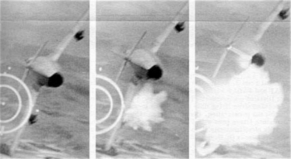 A North Vietnamese Mikoyan-Gurevich MiG-17 is hit and shot down by 20 mm shells from a U.S. Air Force Republic F-105D Thunderchief piloted by Major Ralph Kuster Jr. from the 469th Tactical Fighter Squadron, 388th Tactical Figther Wing, on 3 June 1967.